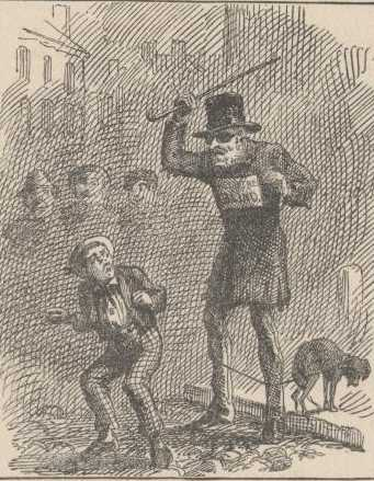 Illustrations de Mark Twains's Sketches, New and Old, 1875.